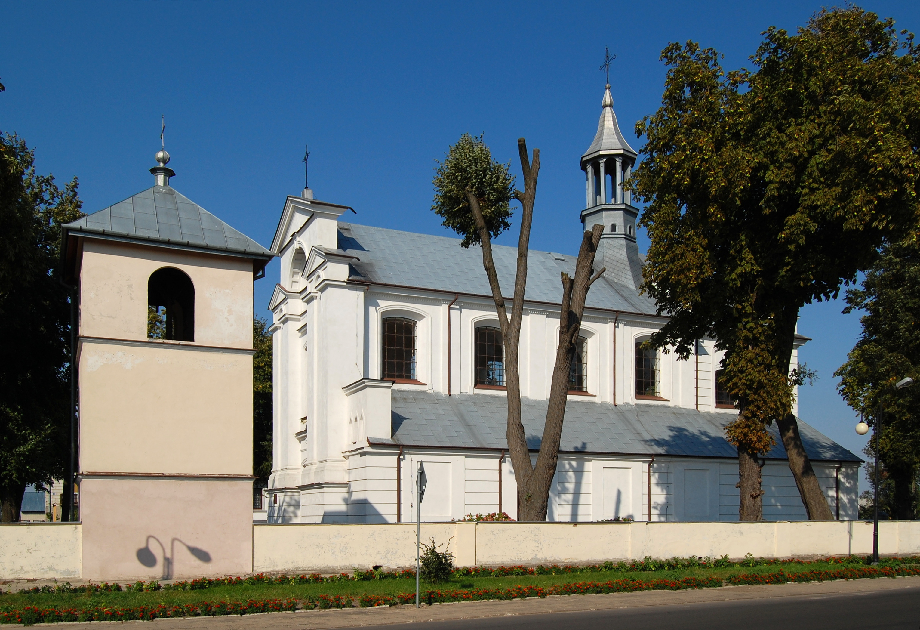 Church with belltower in Adamów, Łuków County, Lublin Voivodship, Poland.